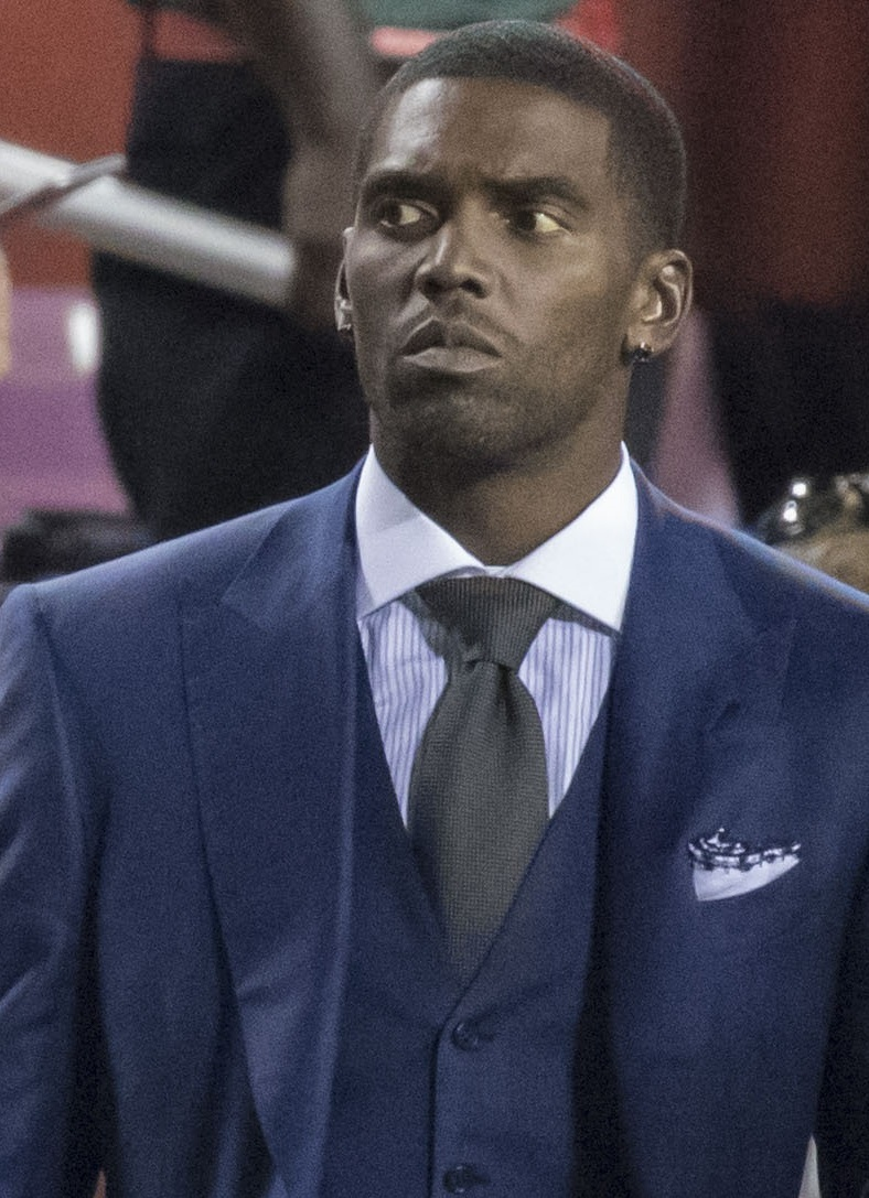 Steelers at Redskins 9/12/16